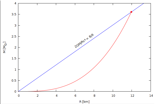 Spherically symmetric homogeneous matter star of the density 10^15 g/cm^3 on the mass-radius diagram (red line), with the maximum mass limit (red dot and blue line) as a result of the solution of Tolman-Oppenheimer-Volkoff solution.